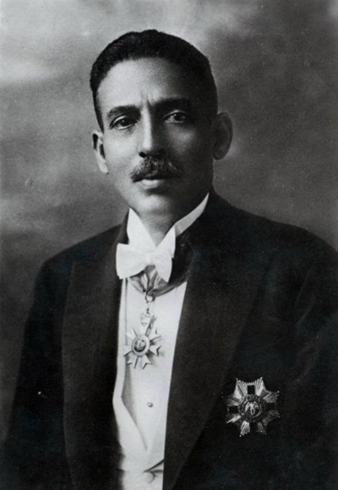 Abd al-Muḥsin Saʻdūn (1879 – 1929), Prime minister of the Iraqi Kingdom 4 times (1922 – 1929).